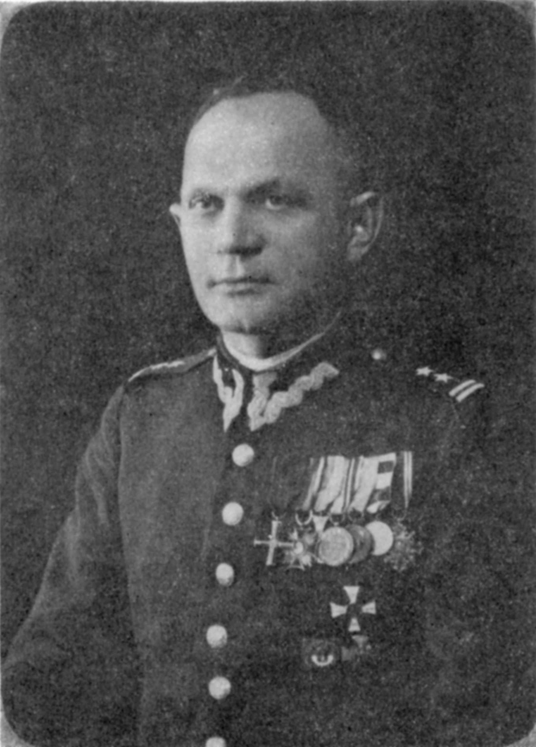 Jan Szymała (1889–1962), Polish Roman Catholic priest, colonel of the Polish army and social activist.